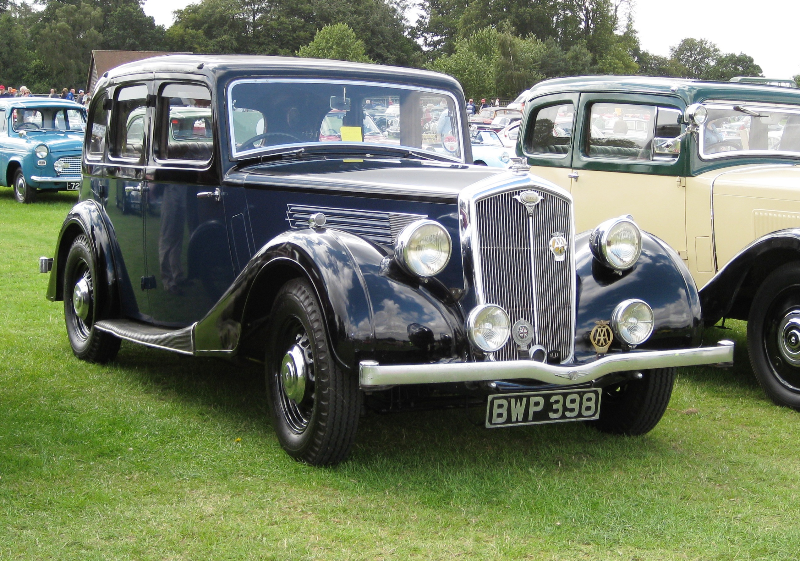 Wolseley 18 (1937) (DVLA) first registered 7 December 1937, 2321 cc at Knebworth Classic car Show